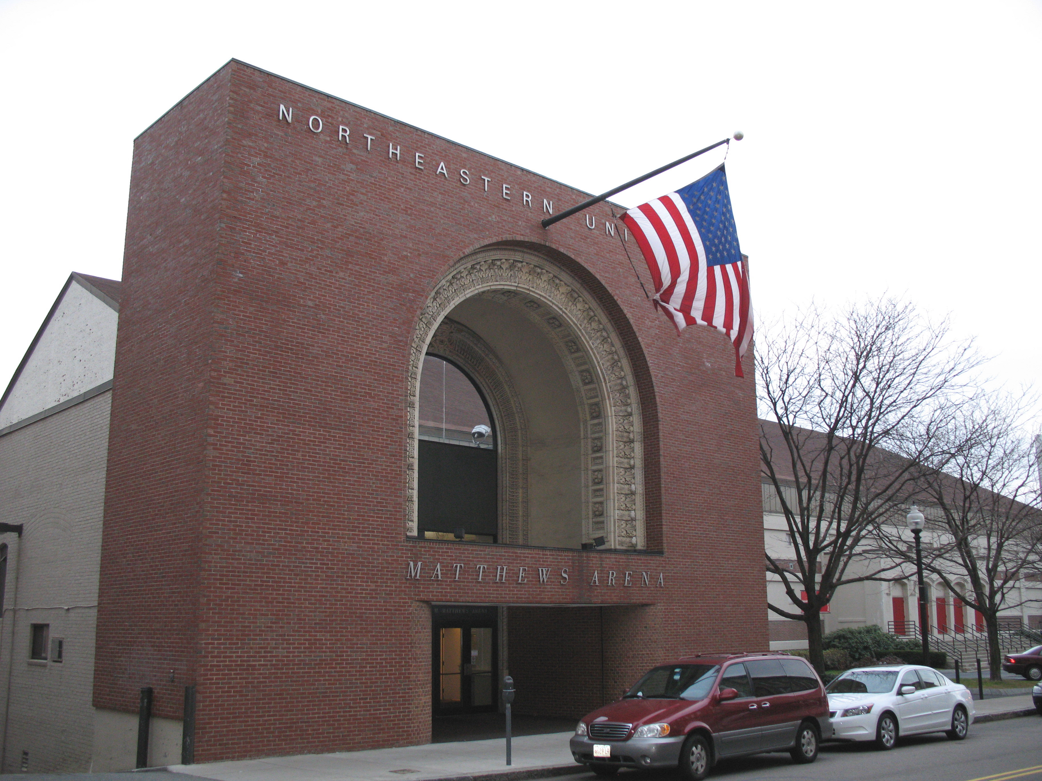 Exterior of Matthews Arena